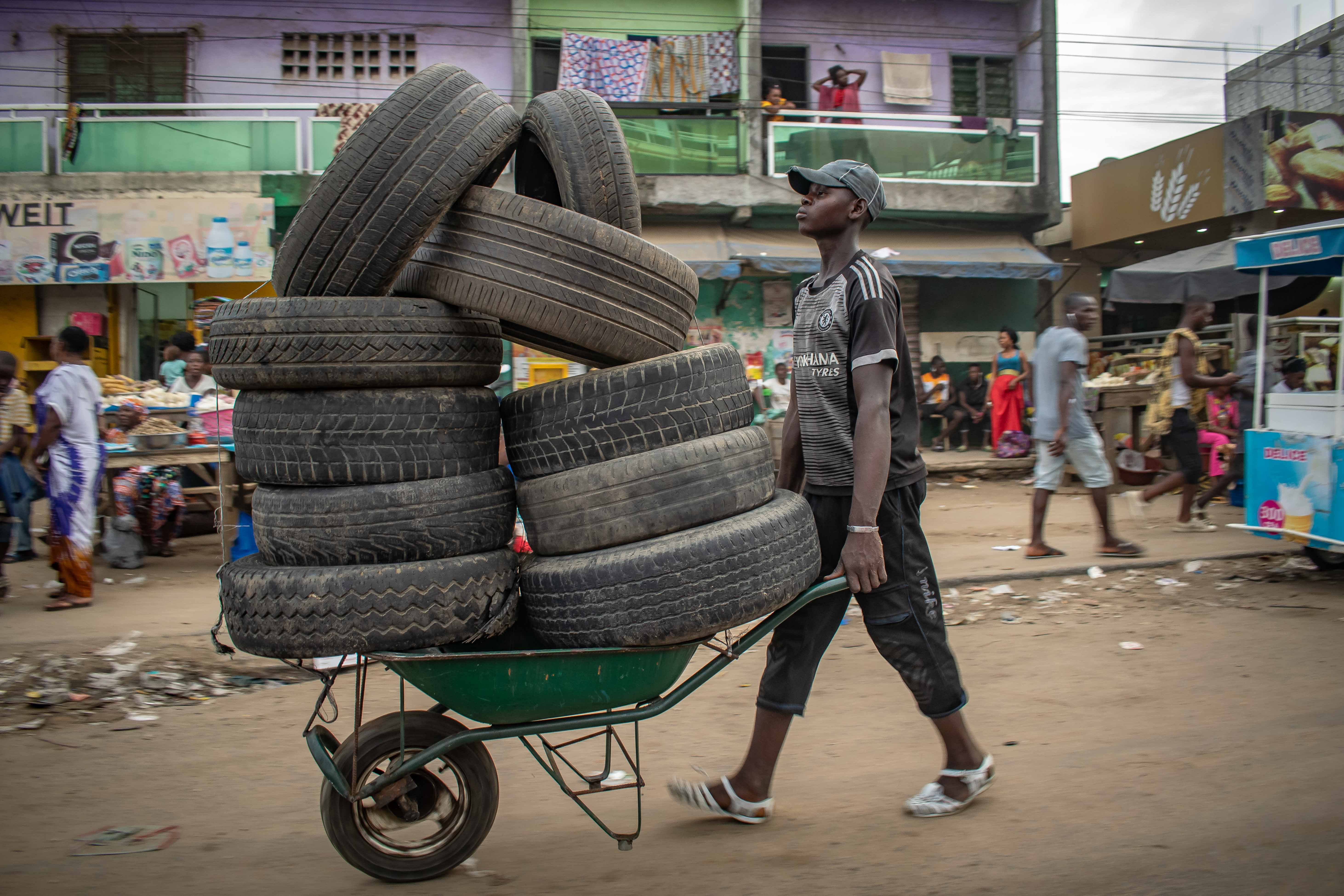 This is an image with the theme "Africa on the Move or Transport" from: Ivory Coast